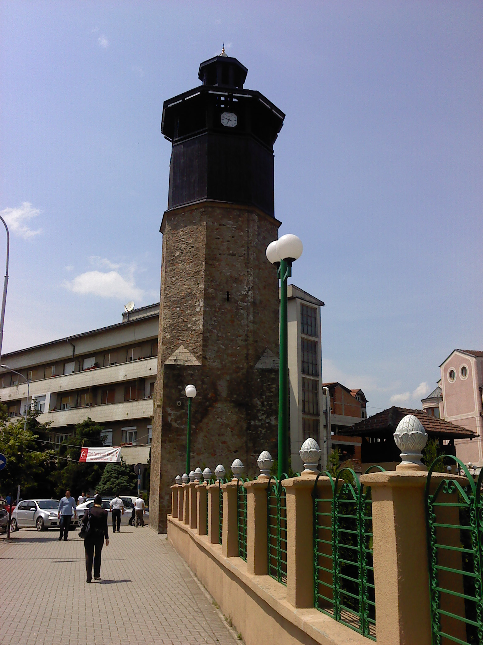 Clock tower in Gostivar, Macedonia